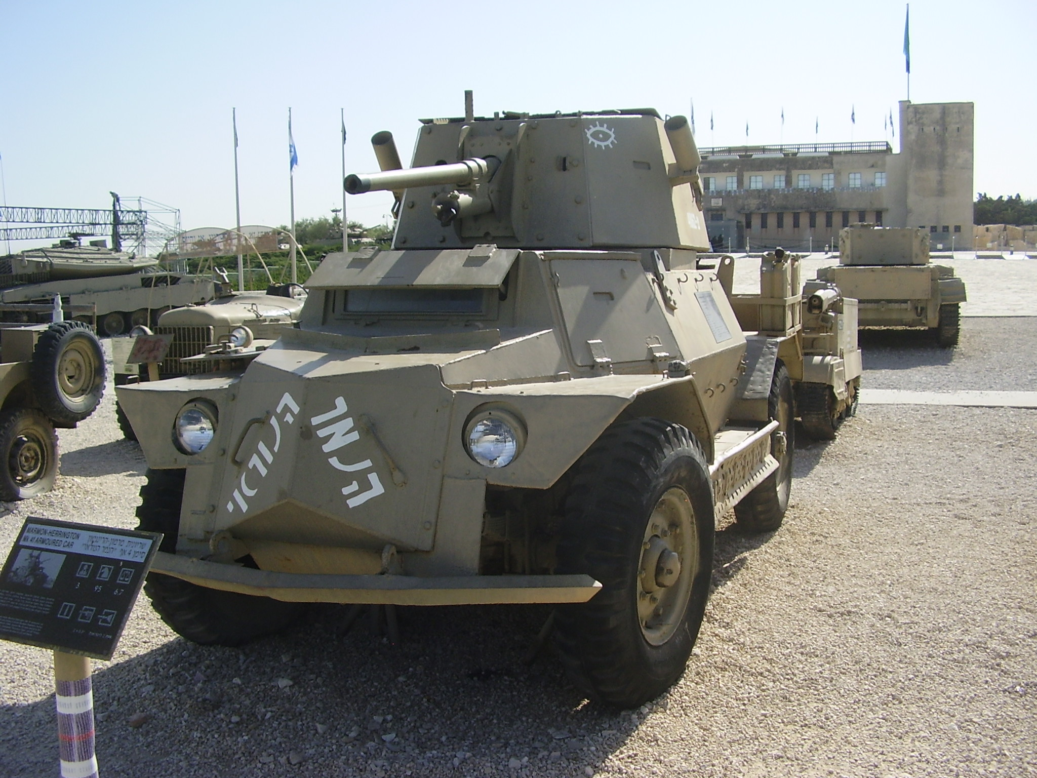 Marmon-Herrington mk-4f armored car in armored corps museum, Latrun, Israel